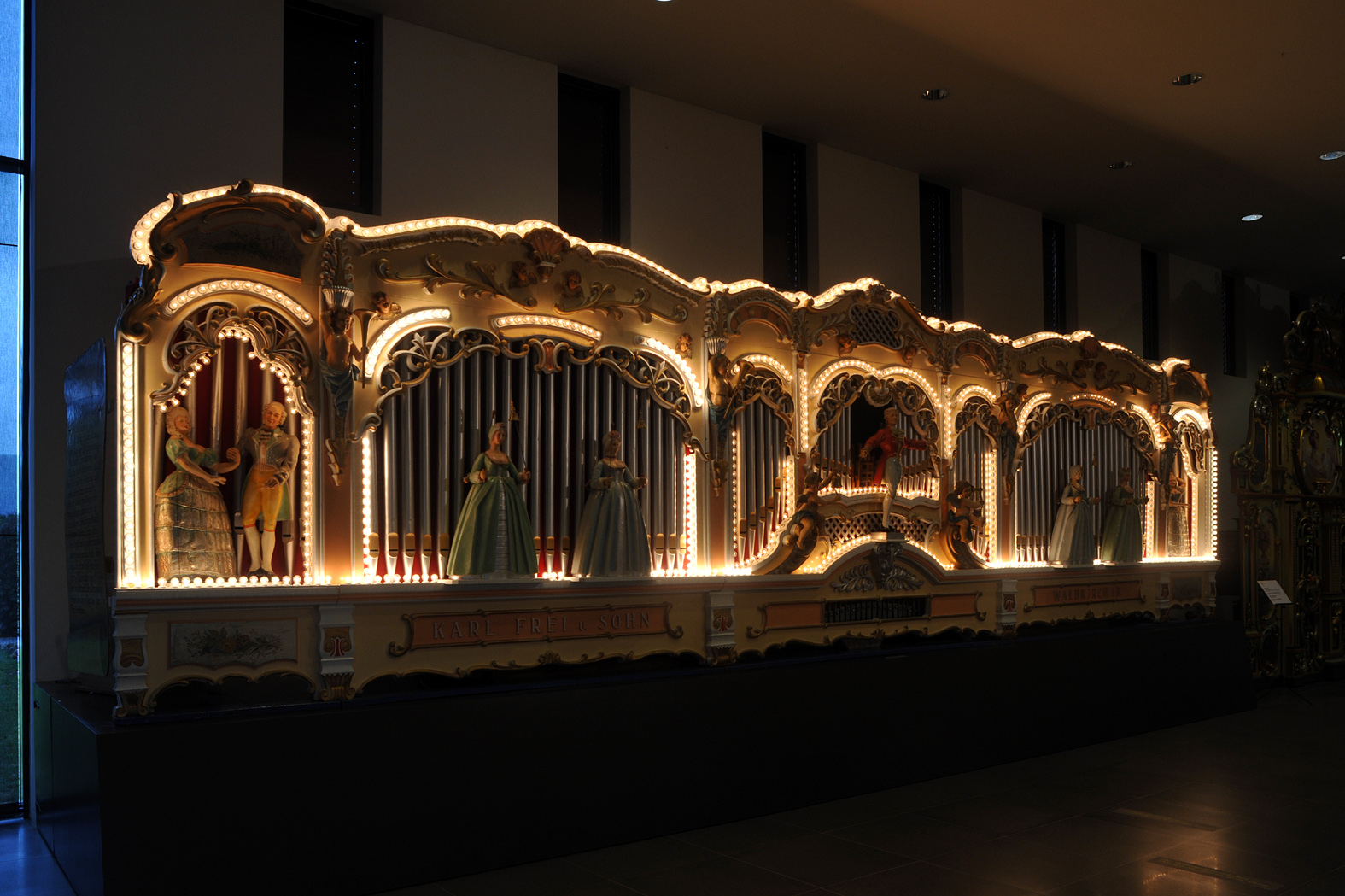 Museum of Music Automatons in Seewen; Solothurn, Switzerland. Street organ of Karl Frei & Sohn, Waldkirch in the entrance hall.[1]